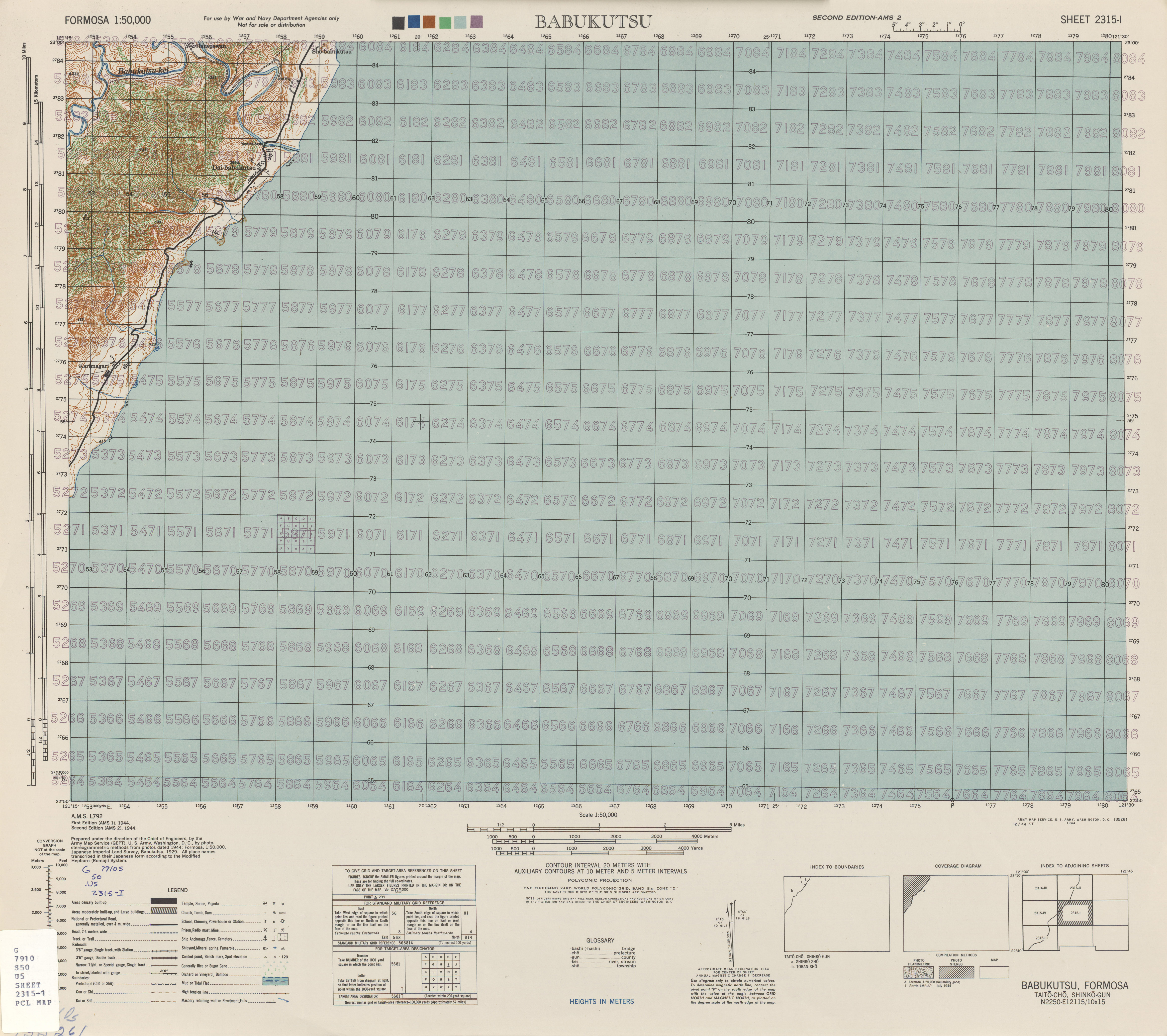 Map from Formosa (Taiwan) 1:50,000 AMS Series L792